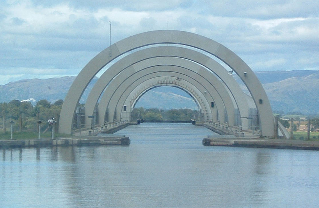 A view down the aqueduct with the Ochil Hills in background.